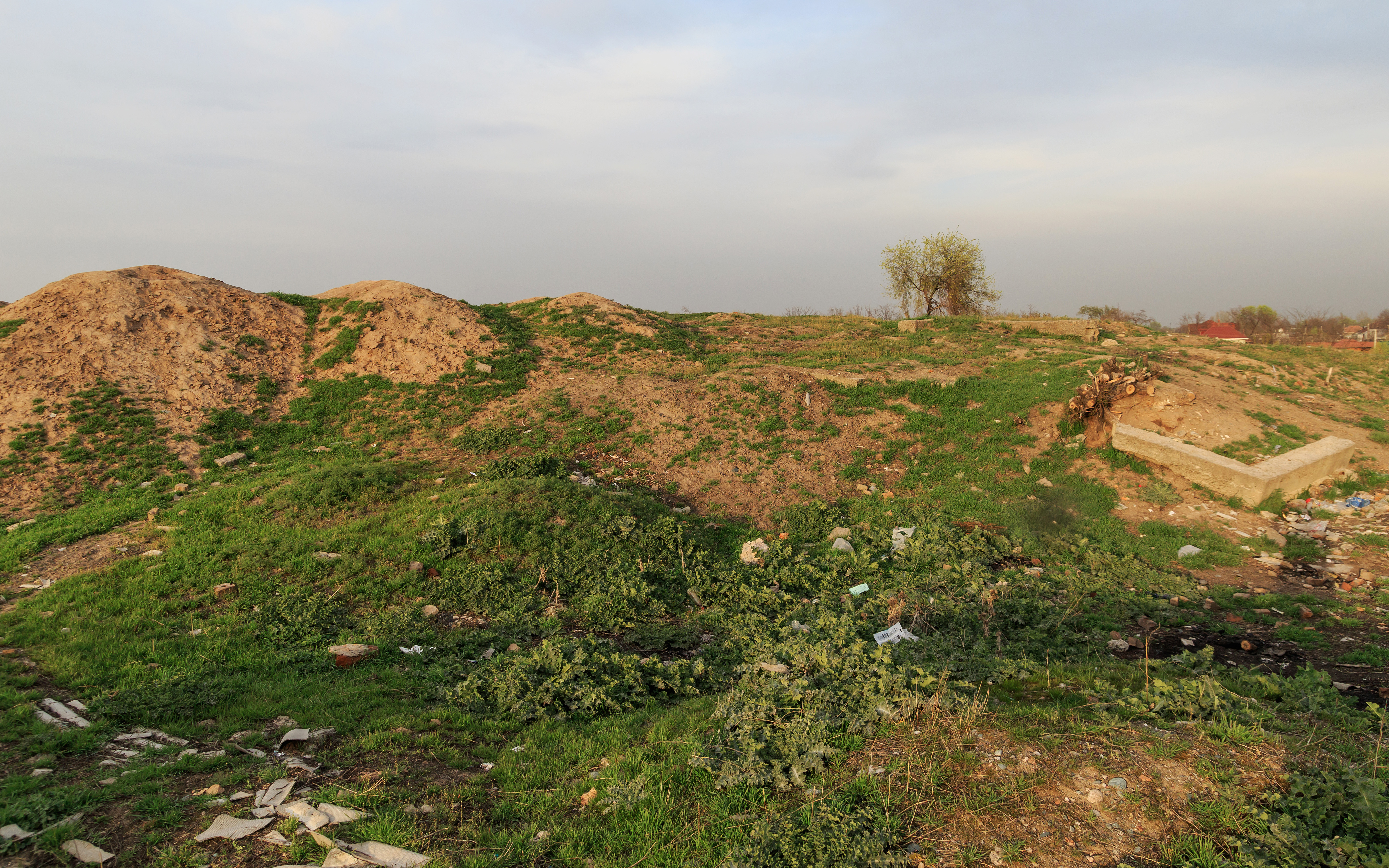 Kuznechnaya Hill (remains of former Pishpek Fortress) in Bishkek, Kyrgyzstan